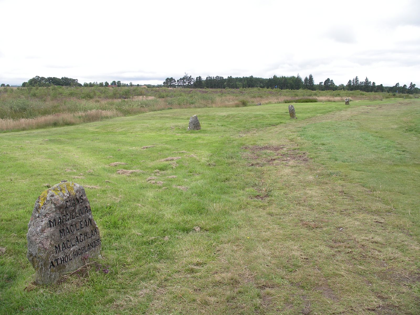 Clan grave stones, located on site of the Battle of Culloden.